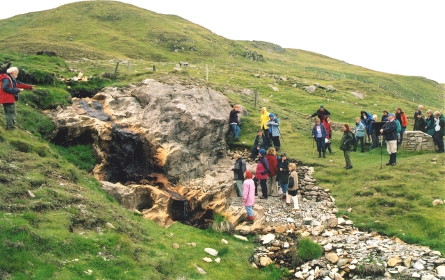 Catpund. The Catpund Burn falls over an outcrop of steatite, a particularly soft type of rock. The Vikings carved bowls and utensils from the rock, and the shapes they cut out can be seen by the burn.